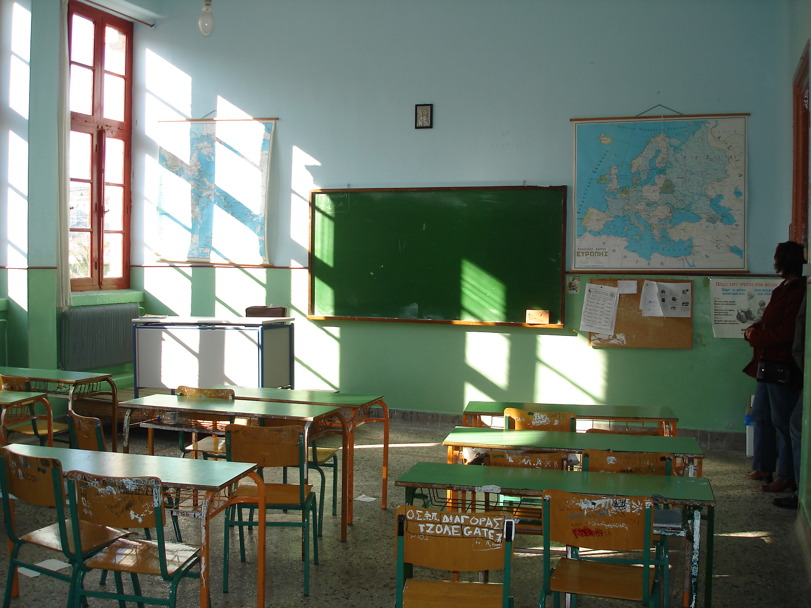 school in Agia Paraskevi, Lesvos, Greece